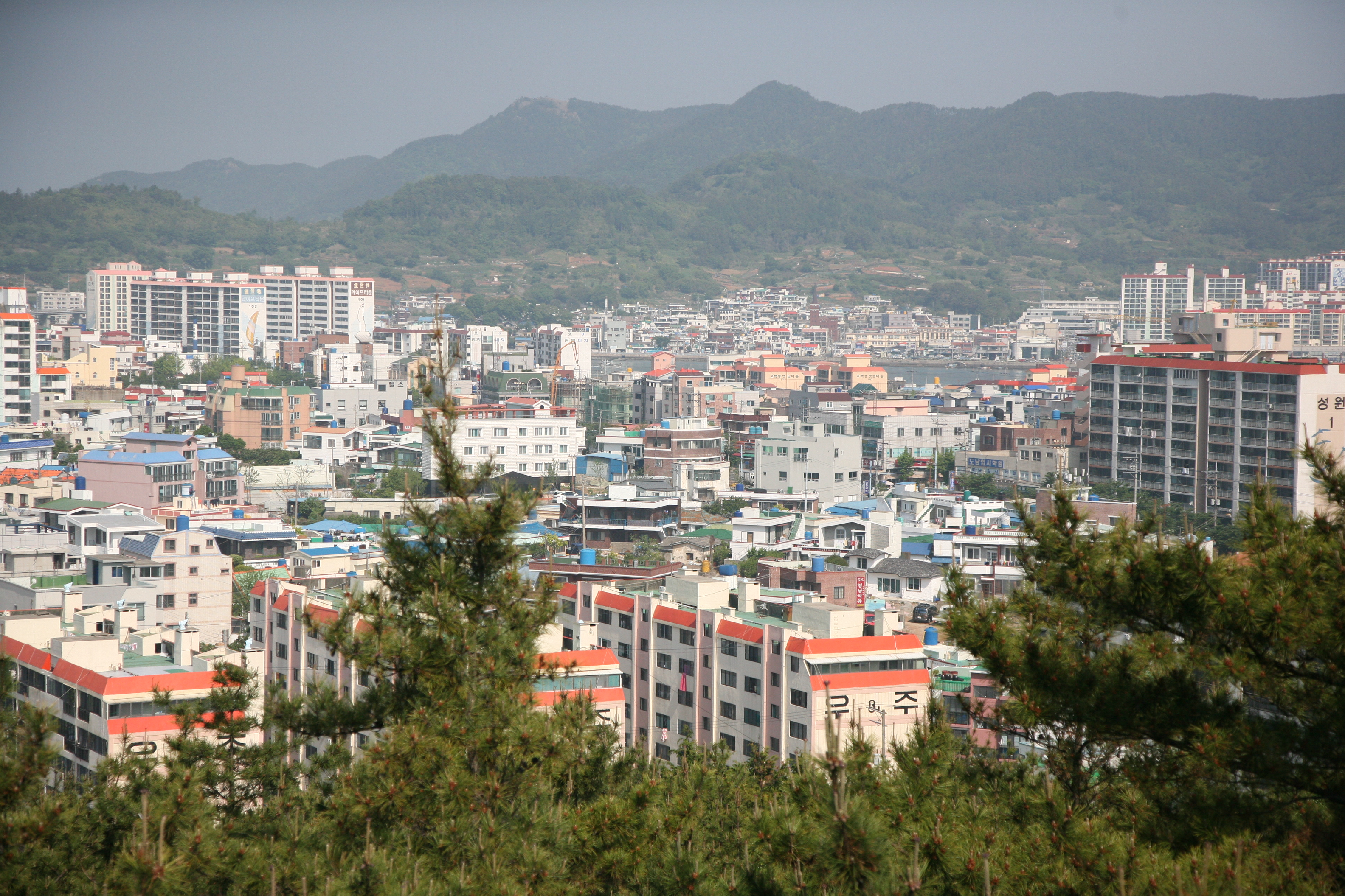 Cityscape of Tongyeong, South Gyeongsang province, South Korea from Hallyeo Waterway Observation dock.